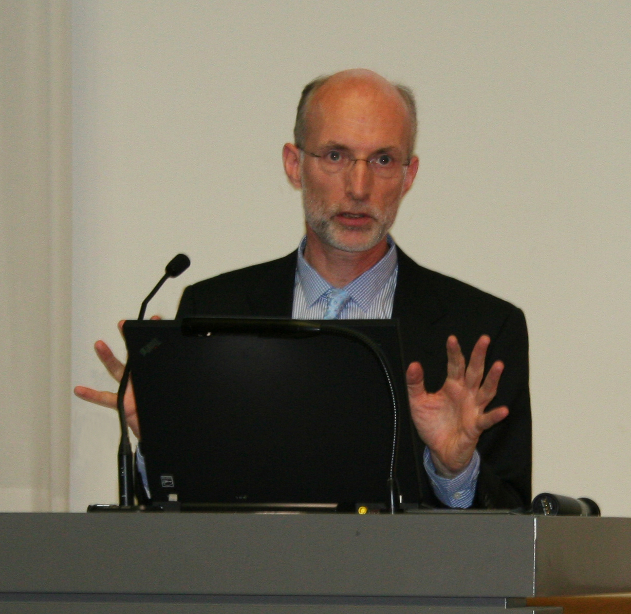 Presentation by Dr. Stuart Parkin on the occasion of the Dresden Barkhausen Award 2009